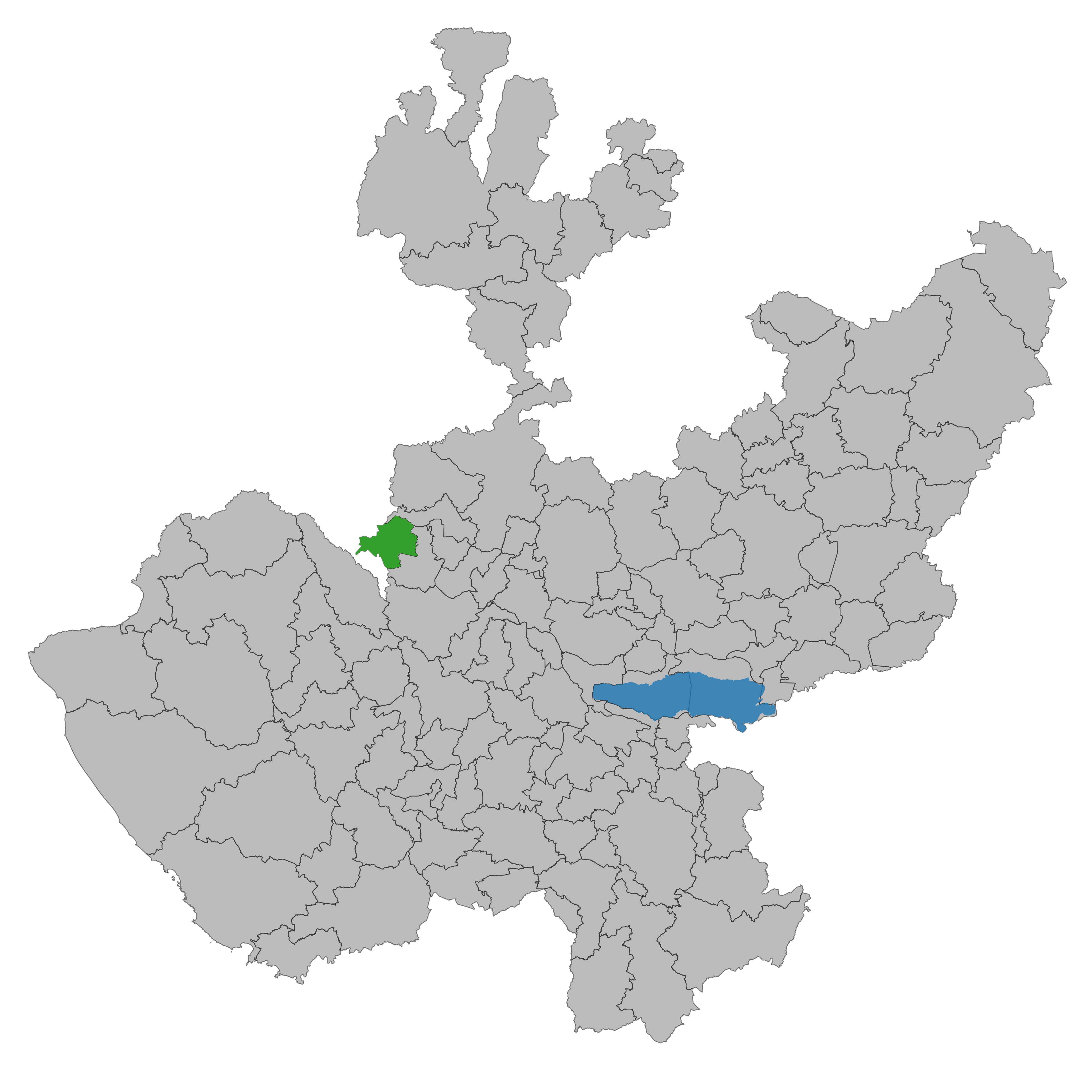 Municipality of Jalisco. Prepared with the software QGIS version 2.8.2 Wien & with information of SCINCE 2010 version 05/2013